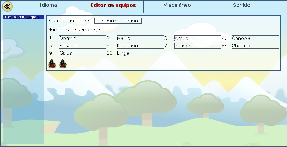 Personal Screenshot